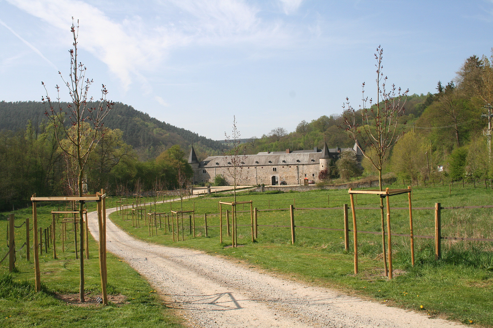 Vierset-Barse (Belgium), the castle-farm of the du Vieux Barse street.